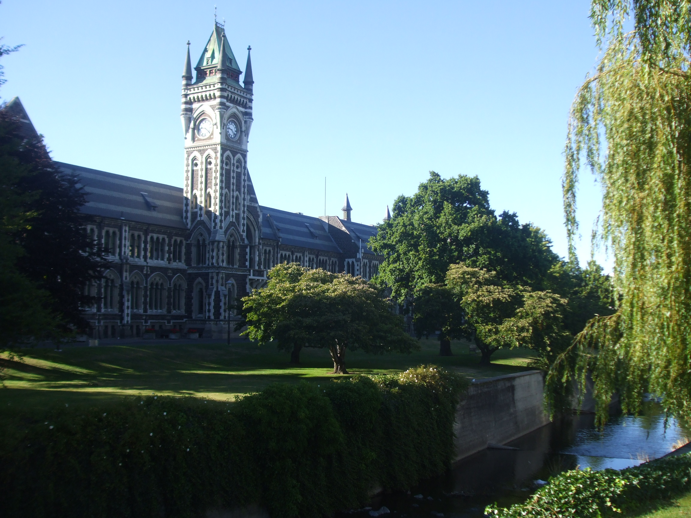 Otago University, Dunedin campus, New Zealand, Clocktower building